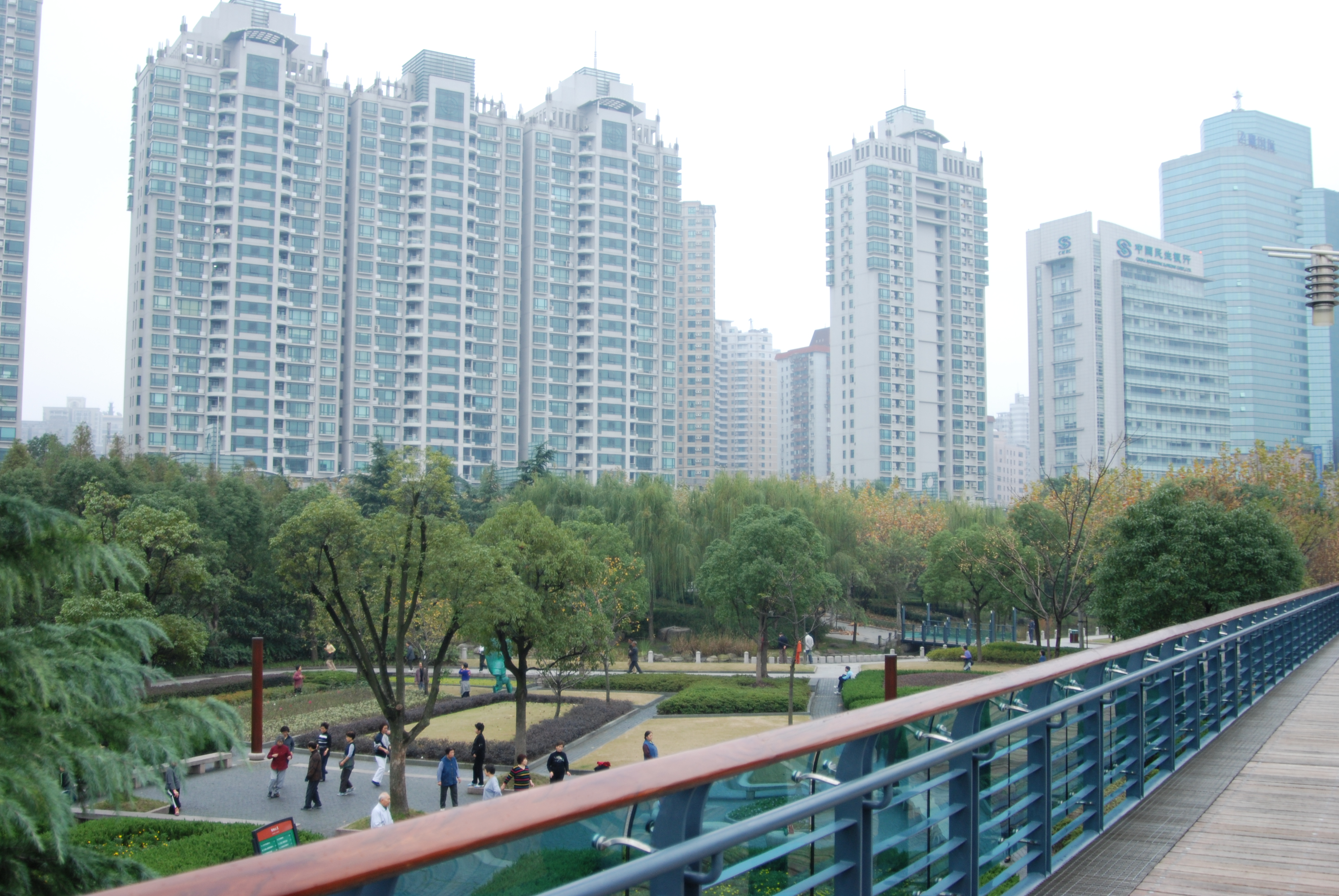 Xujiahui Park seen facing Zhaojiabang Road.